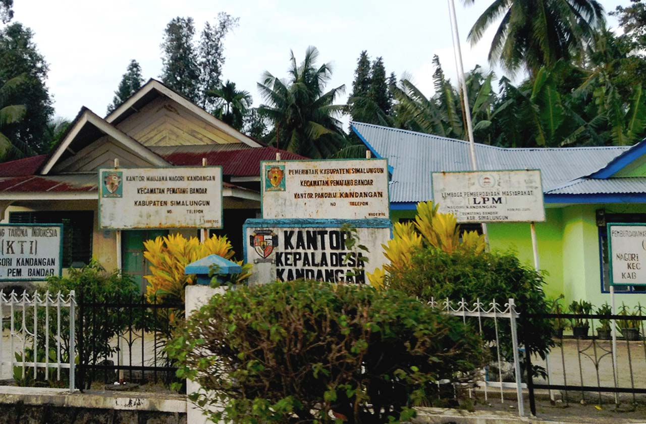 Office of Kandangan, Pematang Bandar, Simalungun